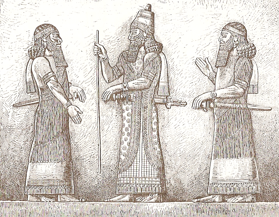 Assyrian king Sargon II and his Grand Vizer. Basrelief from Khorsabad.